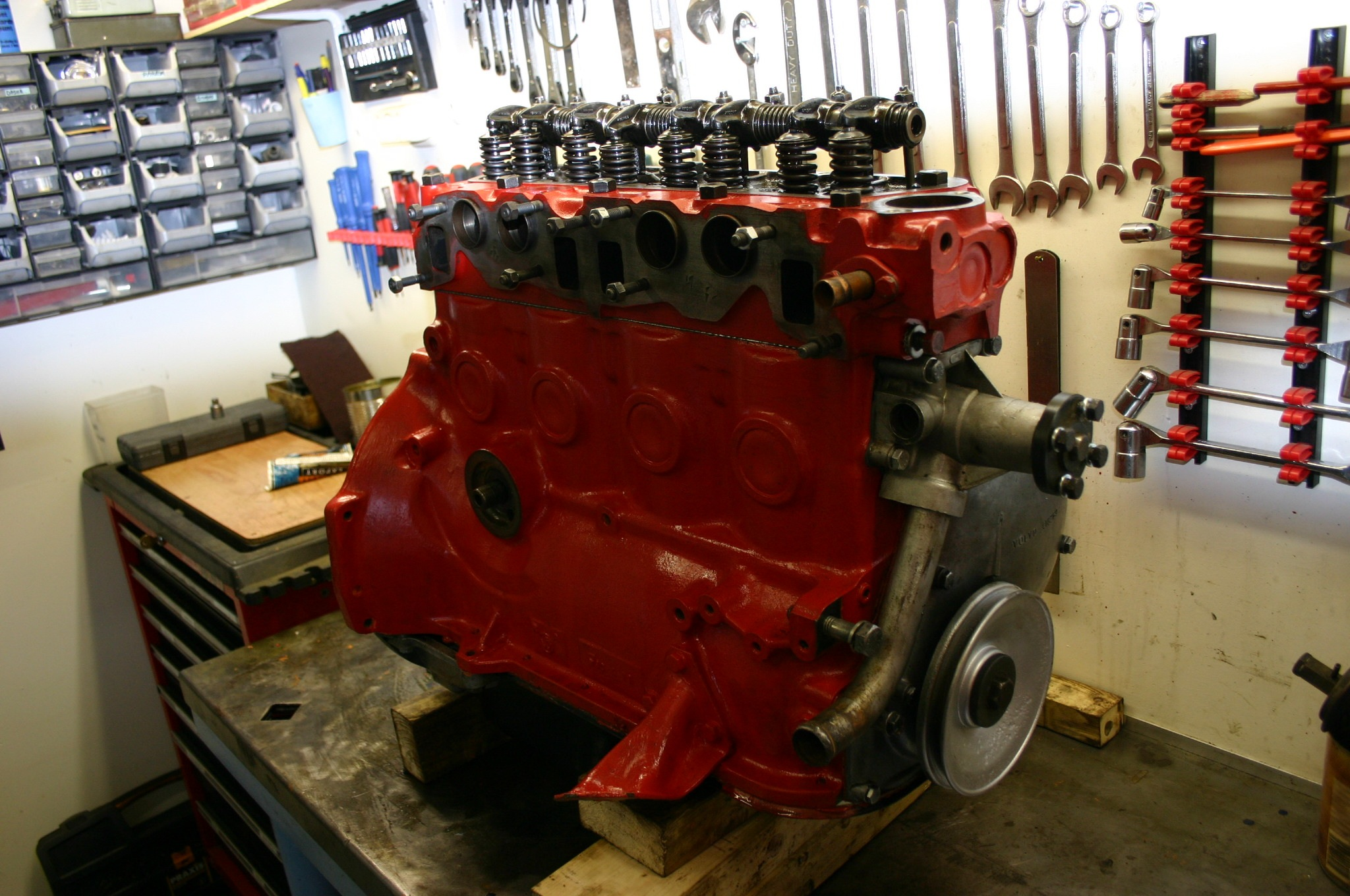 Originally a Volvo B20 engine. Now with higher compression, bigger valves, modified camshaft, 2100 cc.